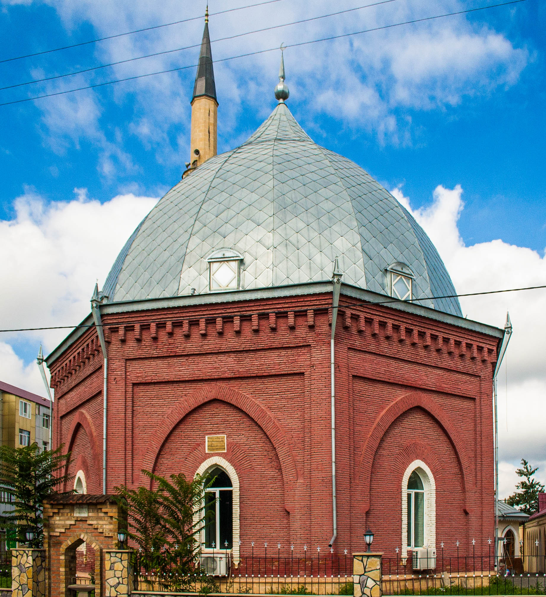 Juma Mosque in QubaAzərbaycanca: Qubada Cümə məscidi.